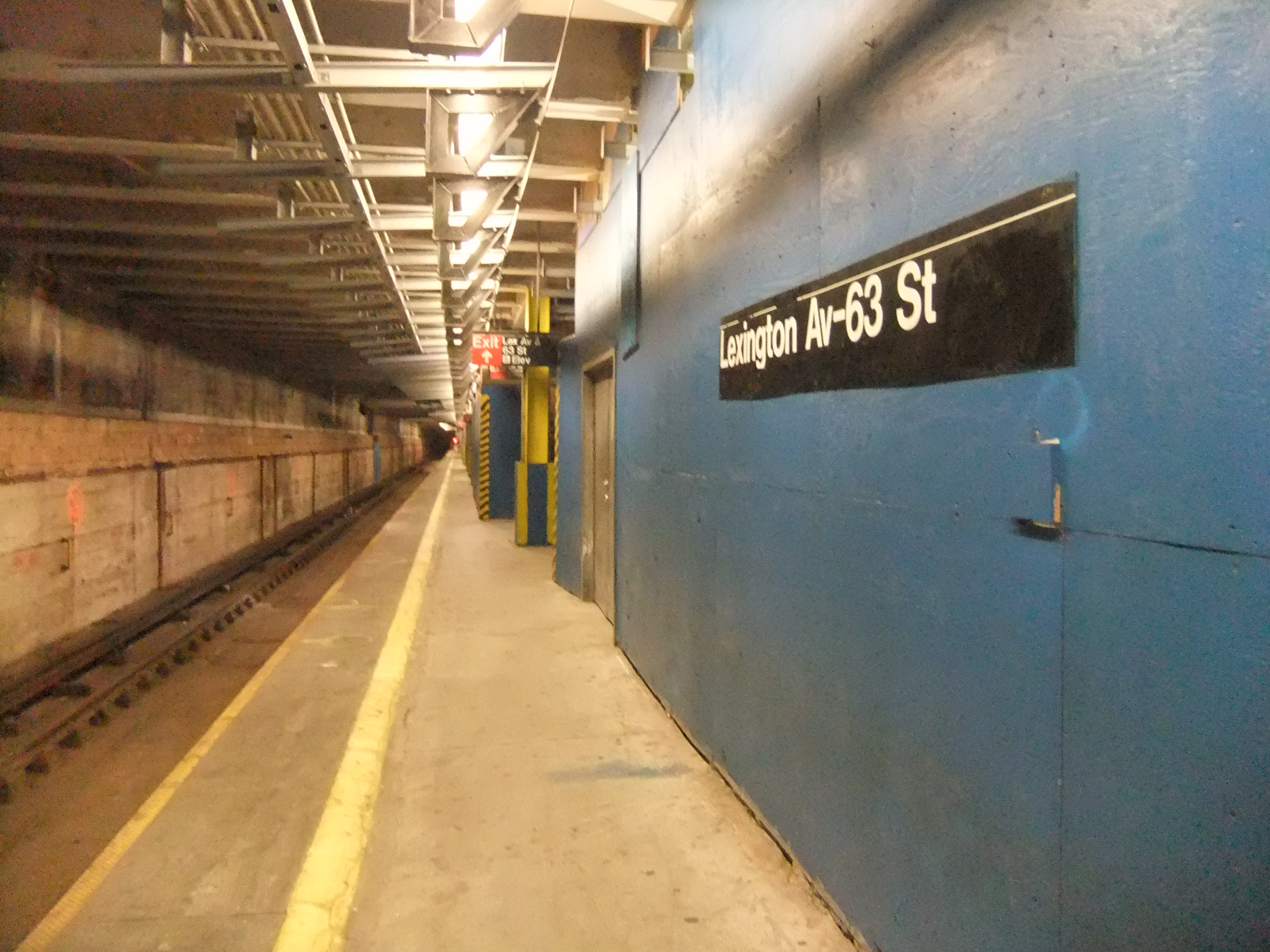 Lex Ave/63rd Street, Queens bound platform undergoing construction for SAS.